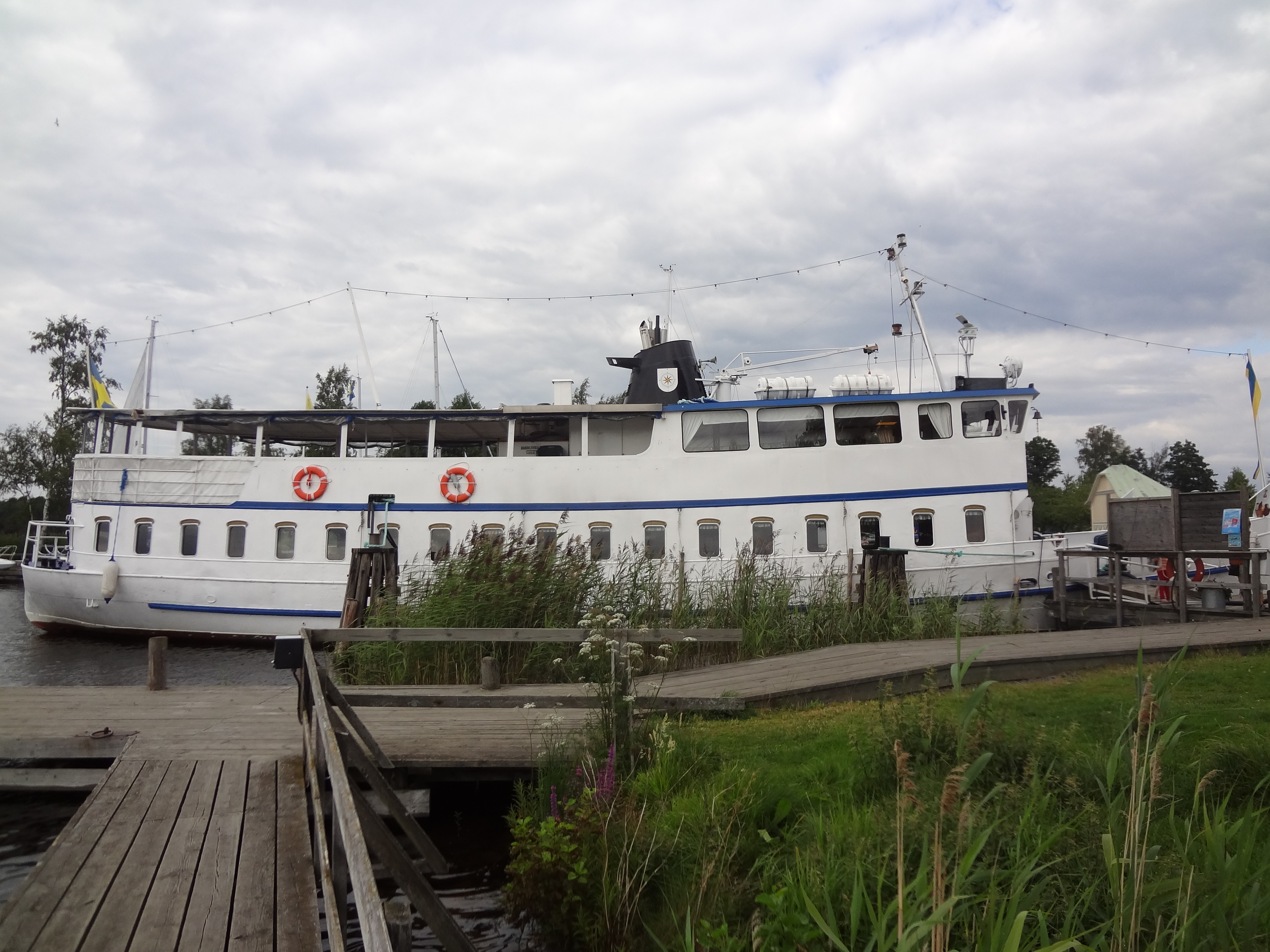 Swedish ship "Sandön"